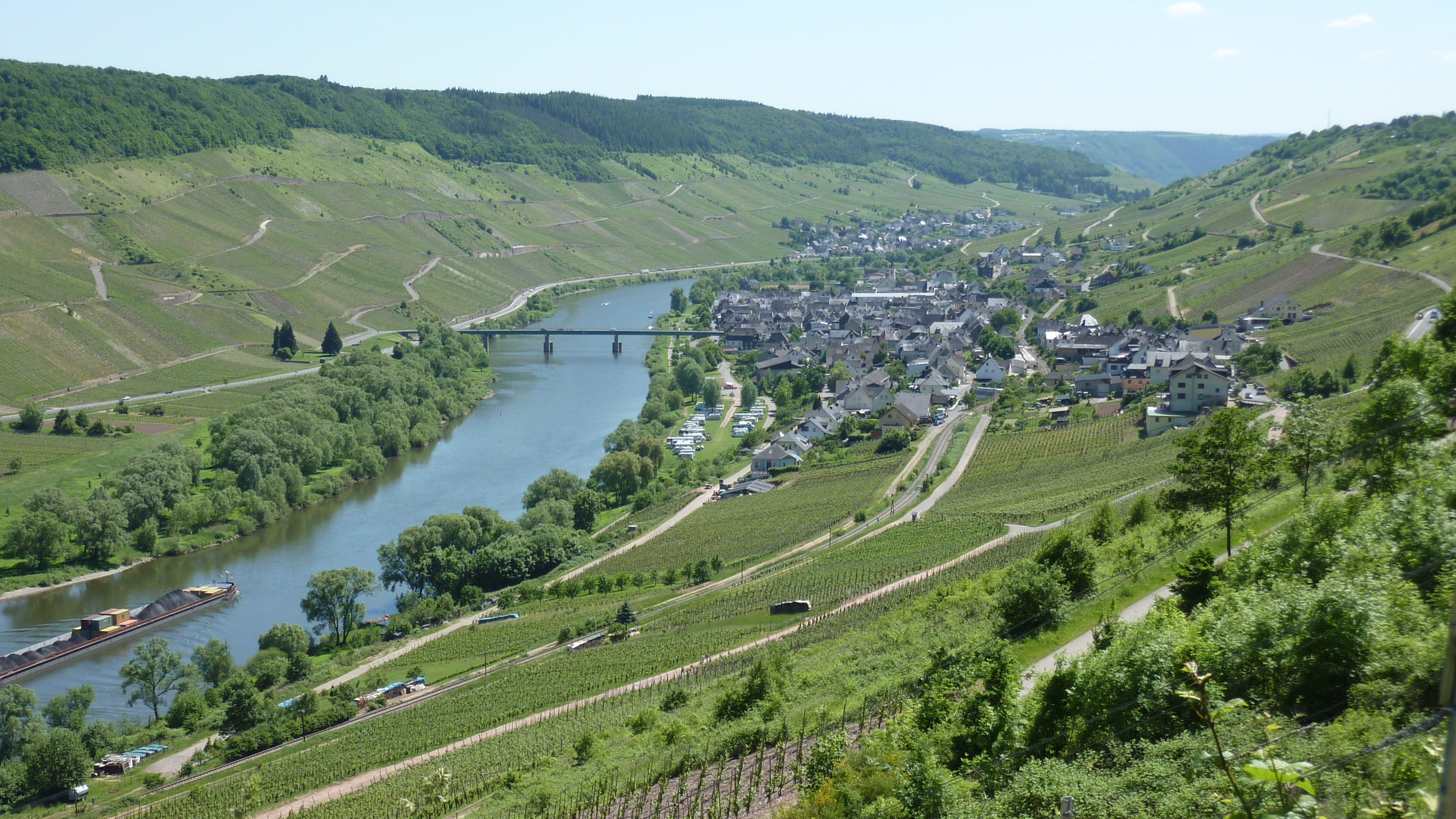 The village Reil viewed from north.